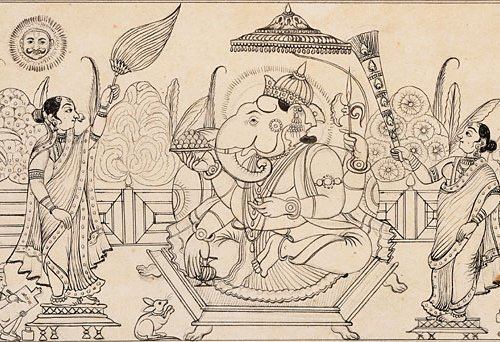 Ink drawing of Ganesha under an umbrella, with his two wives, who are fanning him. His rat is in the foreground, to the left. The sun, with a face, shines upon the scene. Various trees in the background.